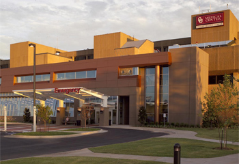 A view of Presbyterian Tower at OU Medical Center. OU Medical Center at OU Medicine.